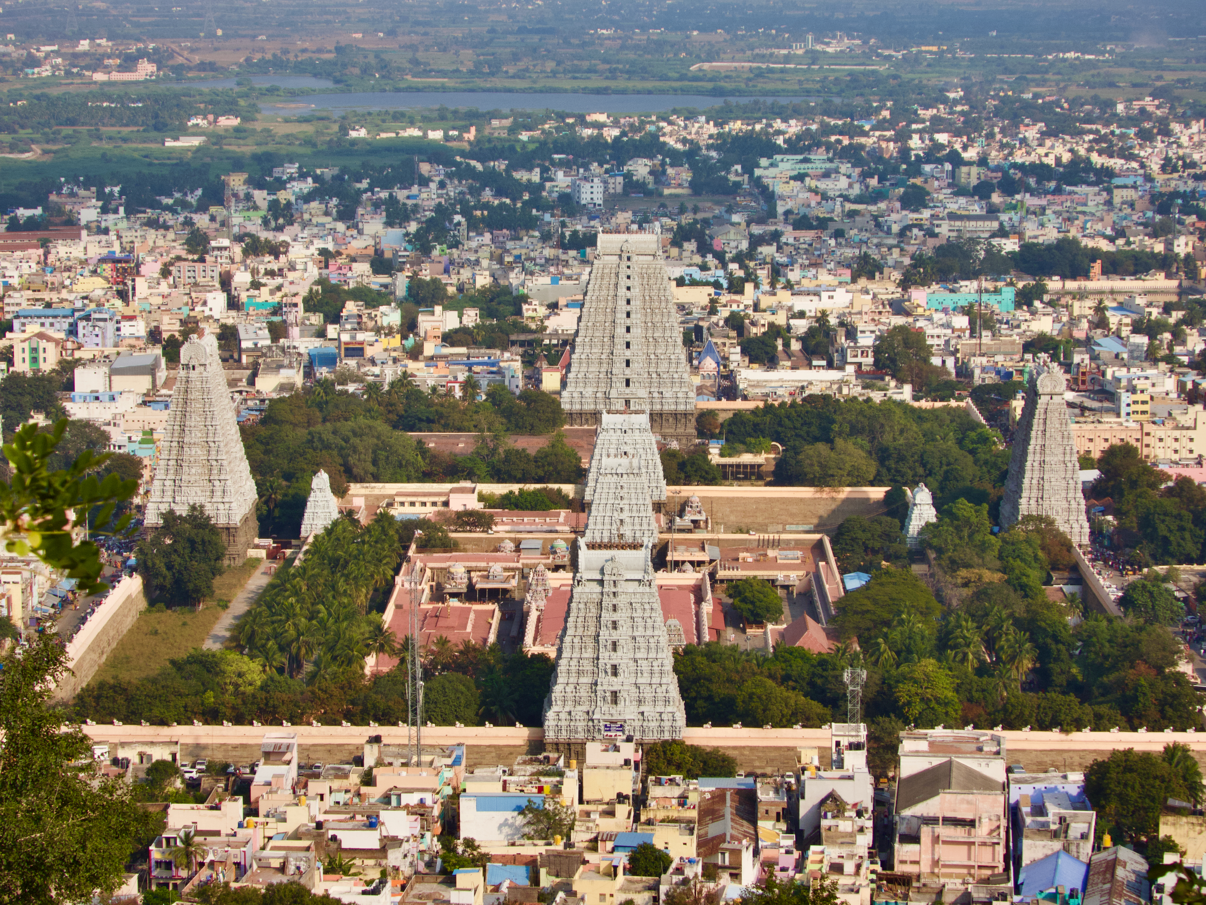 Arunachalam temple captured from a nearby hill